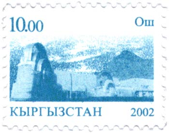 Stamp of Kyrgyzstan